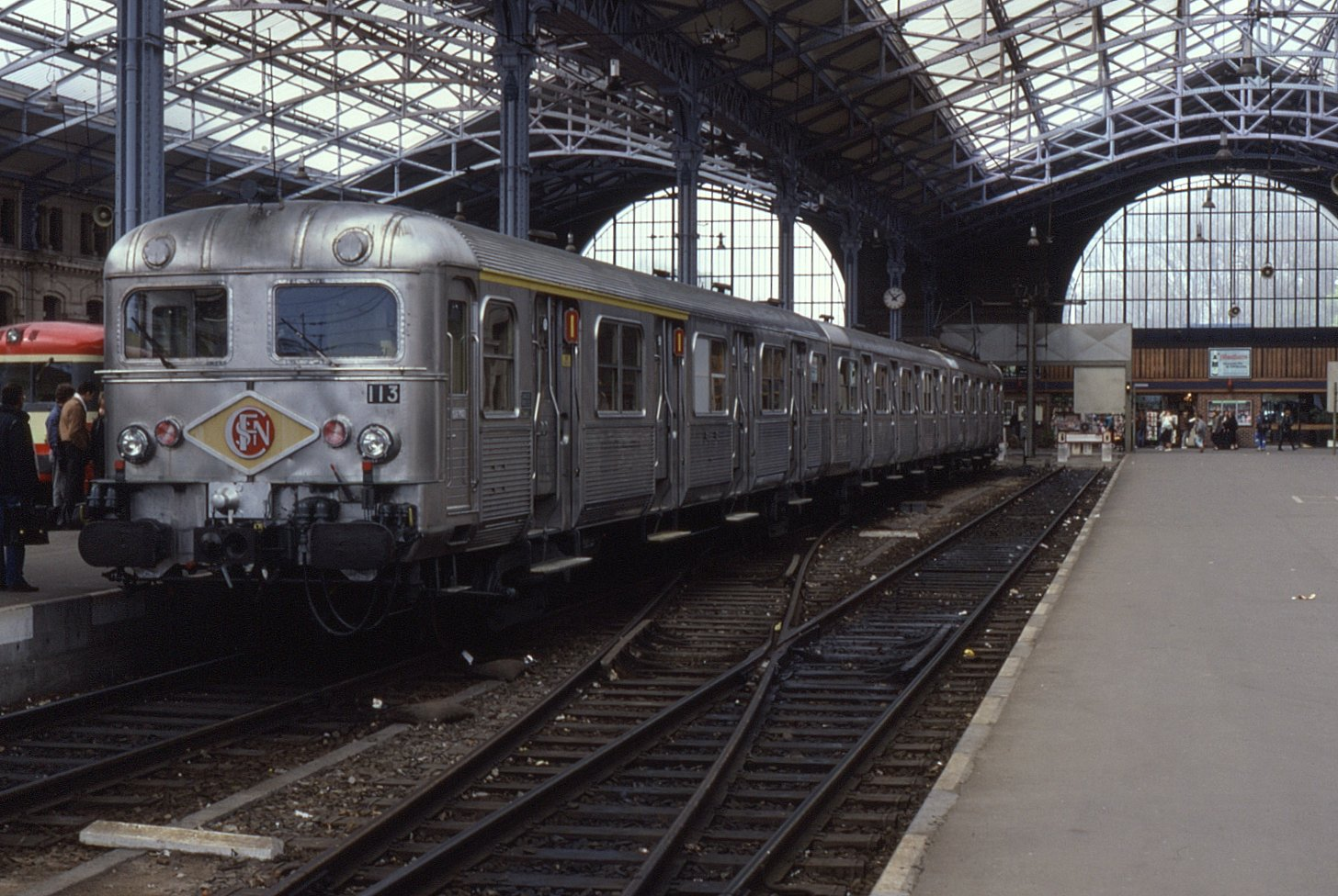 Class Z5100 EMUs built to work on 1500V dc lines out of Paris Montparnasse and Lyon station though found their way working further away as more modern sets were built fore the Paris area. Seen at Tours on 11 April 1987, set Z5113 was noted working the shuttle between there and St Pierre des Corpes.